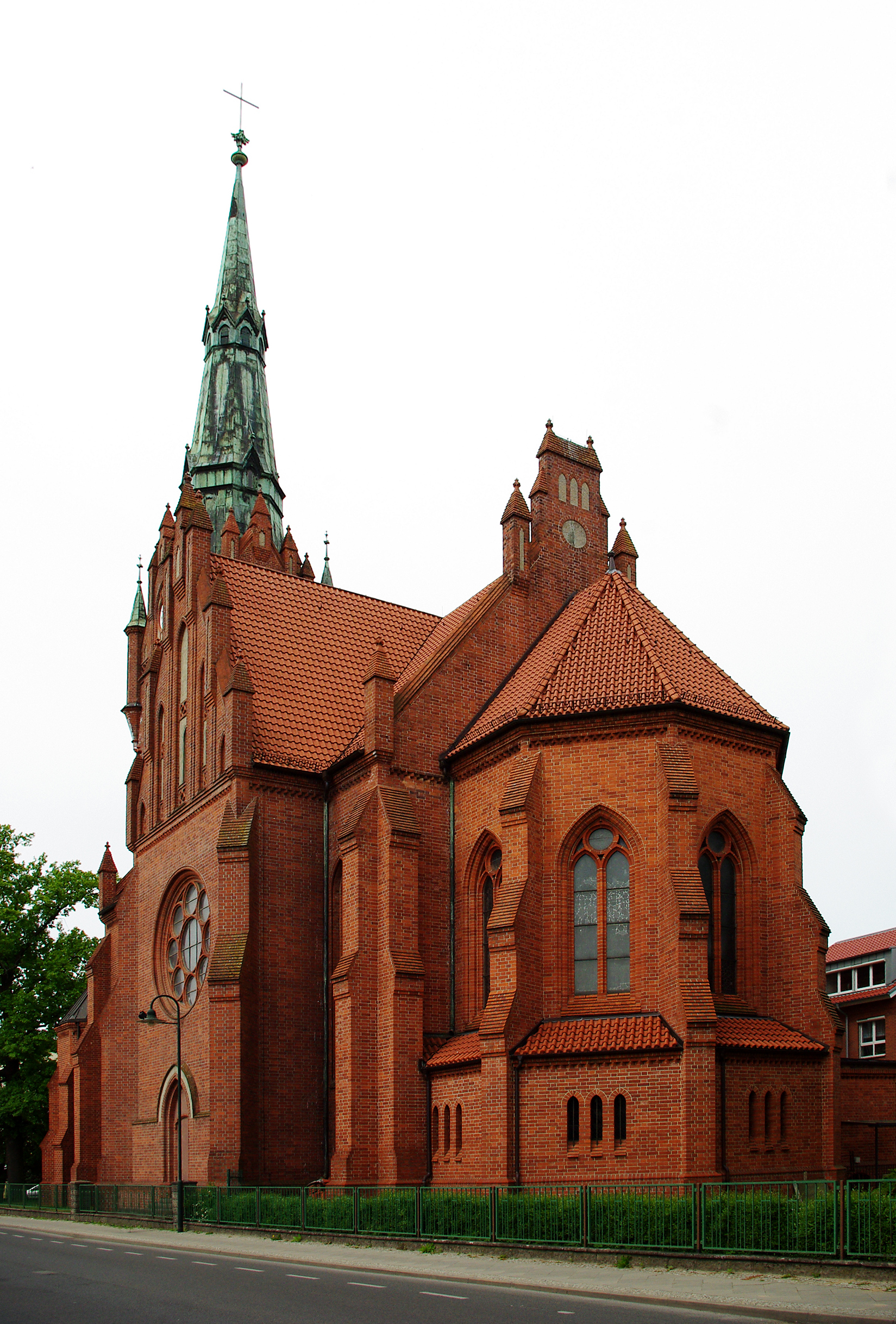 Sacred Heart Church (Bernau bei Berlin), seen from the east (Ulitzkastraße), in May 2012.